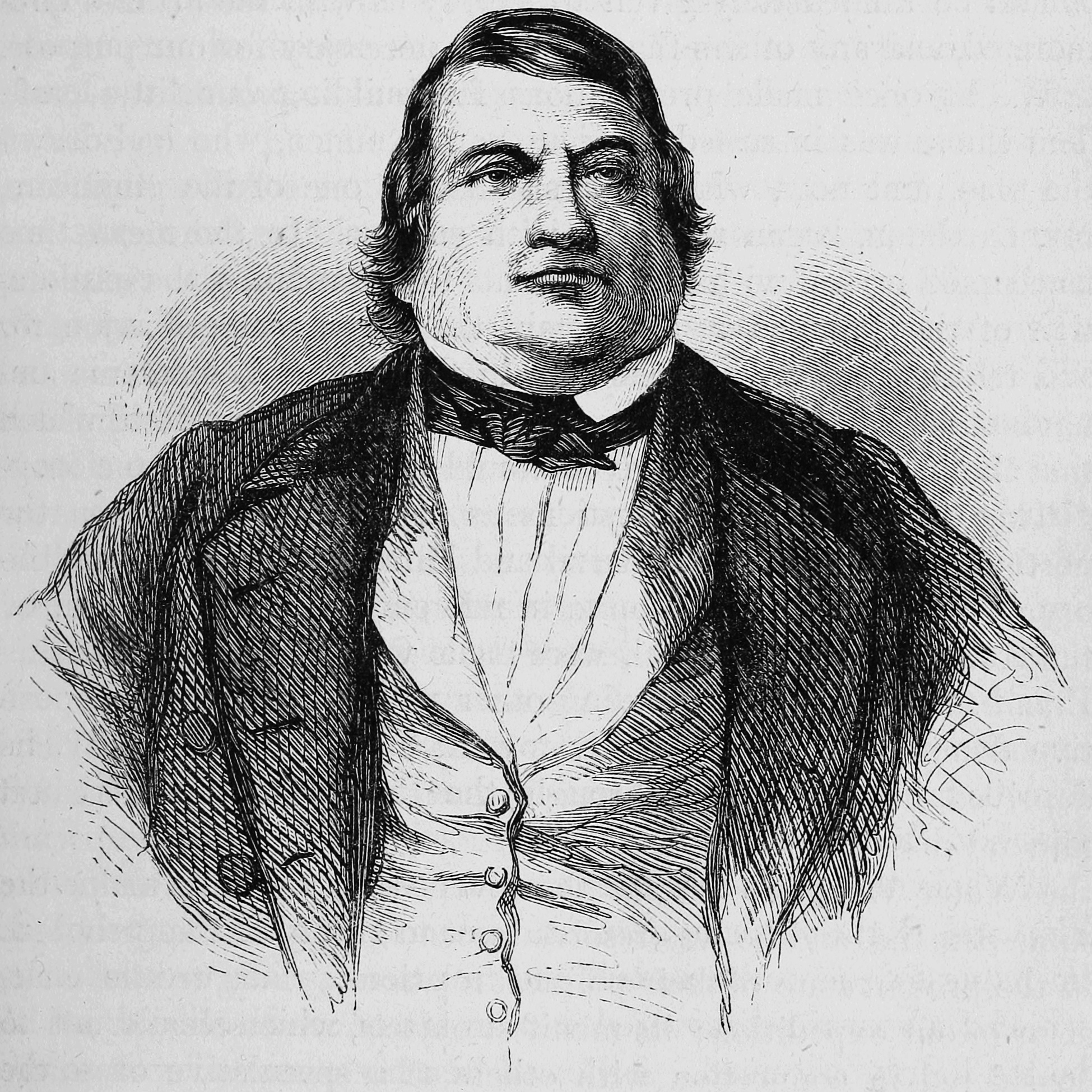 Carlos Antonio López, President of Paraguay. Illus. in: Harper's Weekly (?), 1859.